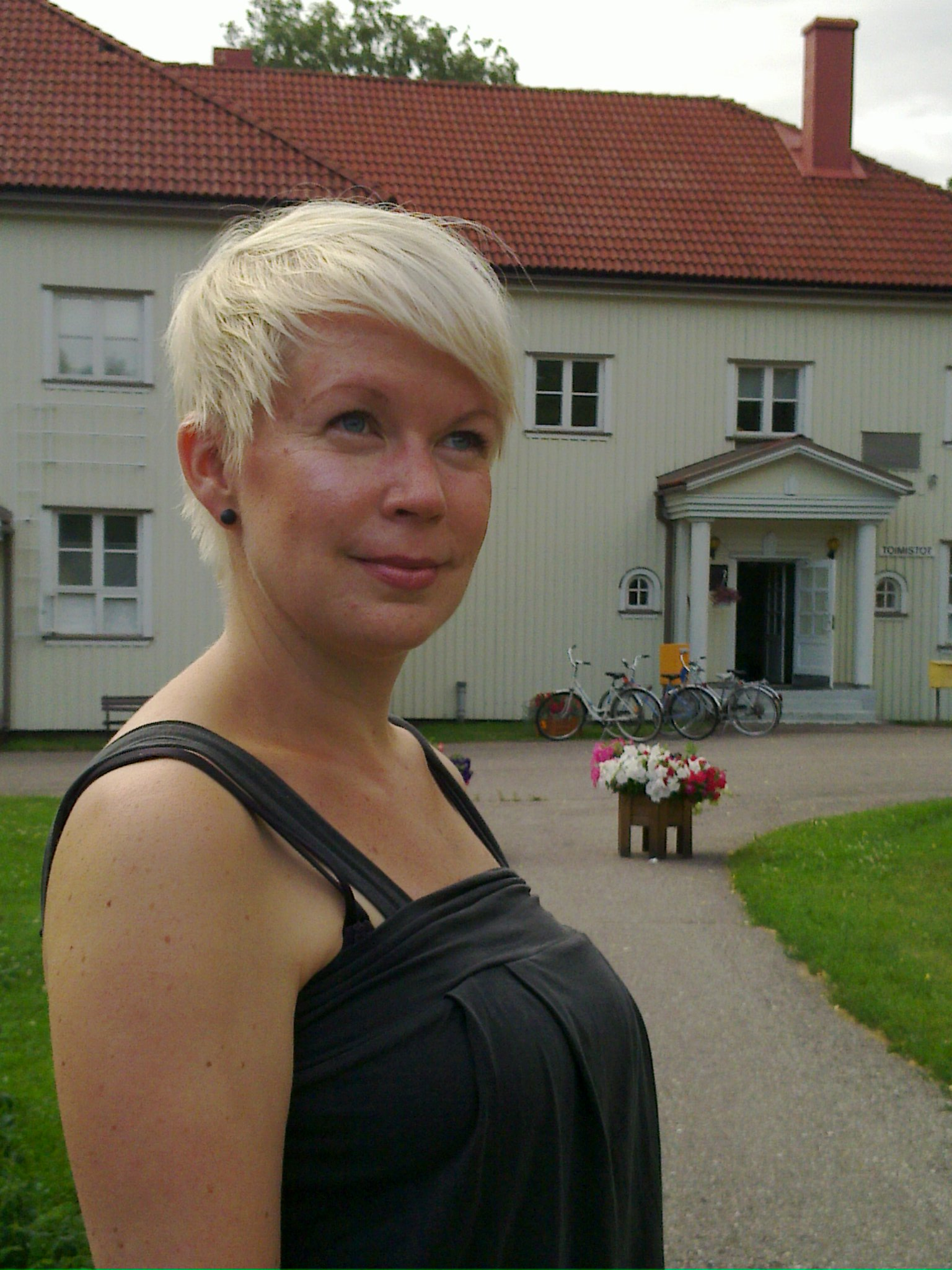 Finnish writer, journalist and documentary film-maker Elina Hirvonen in Joutsenon Taidekesä 2011 event in Joutseno, Finland